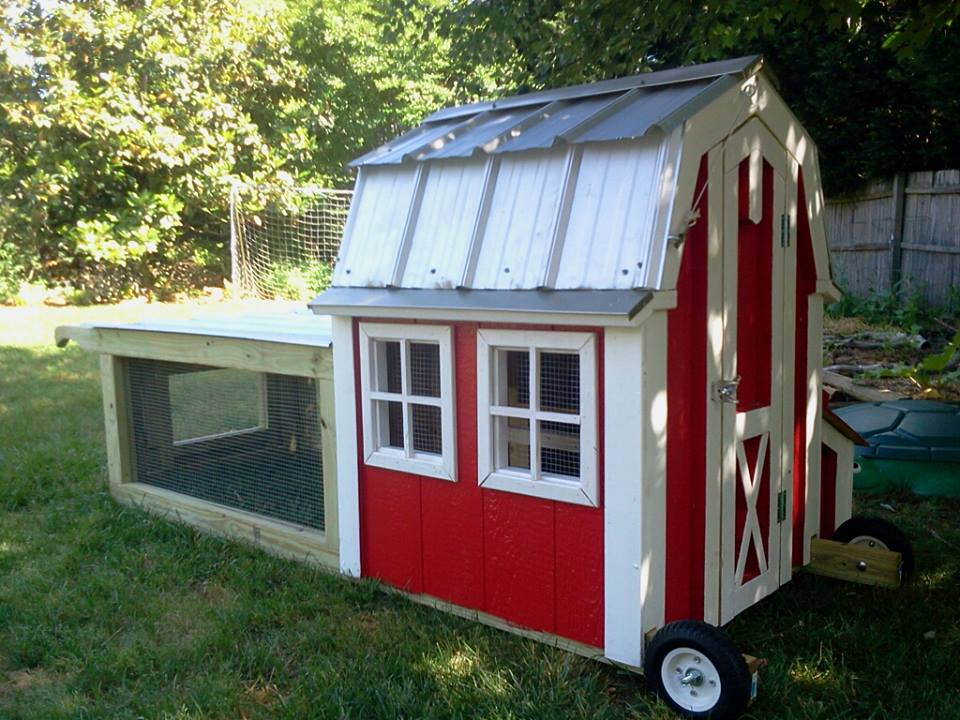 Custom Mobil chicken tractor built to hold up to 5 hens